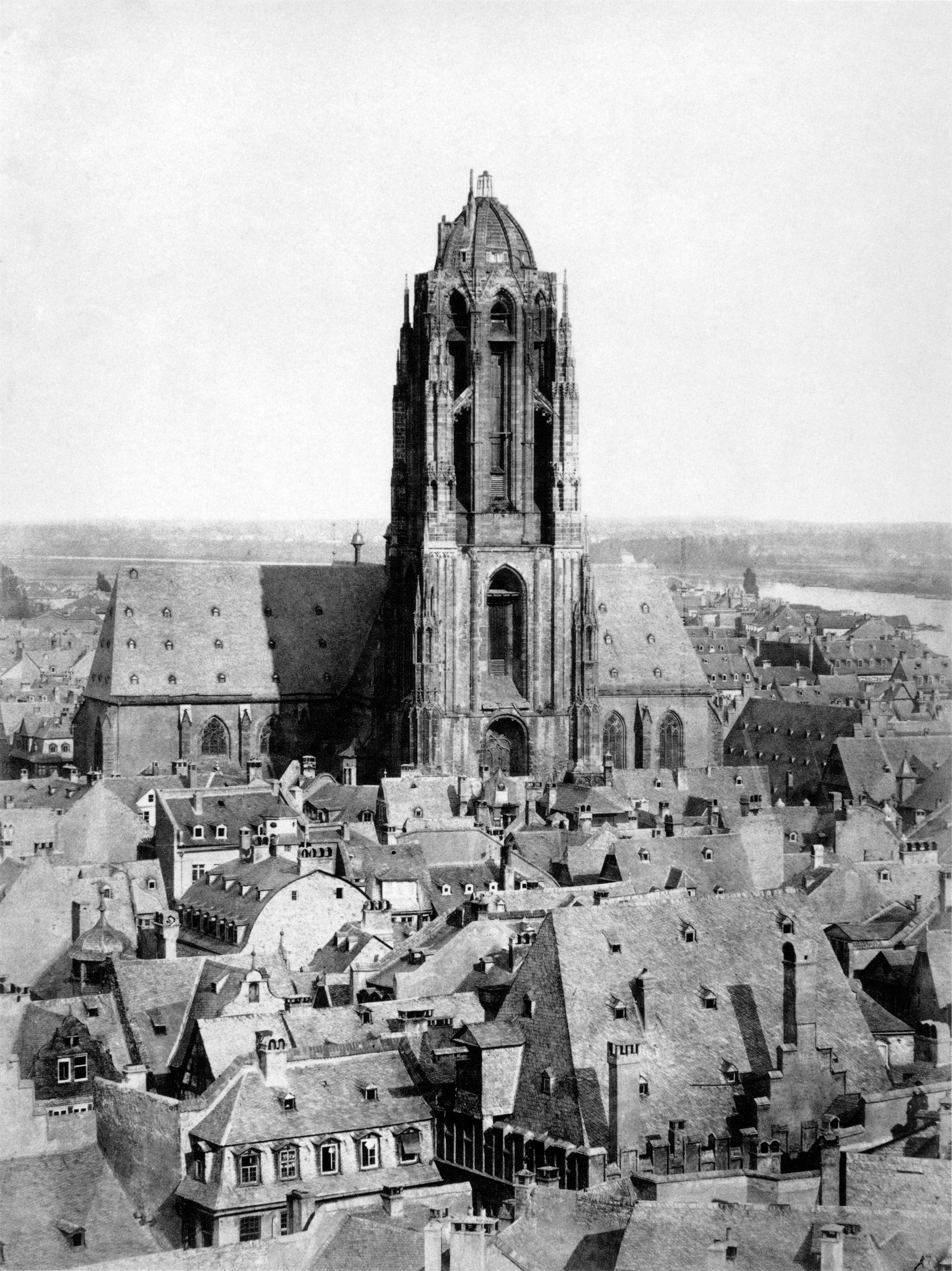 Frankfurt on the Main: Cathedral with the roofs of the old town as seen from the Paulskirche (Saint Paul's church)